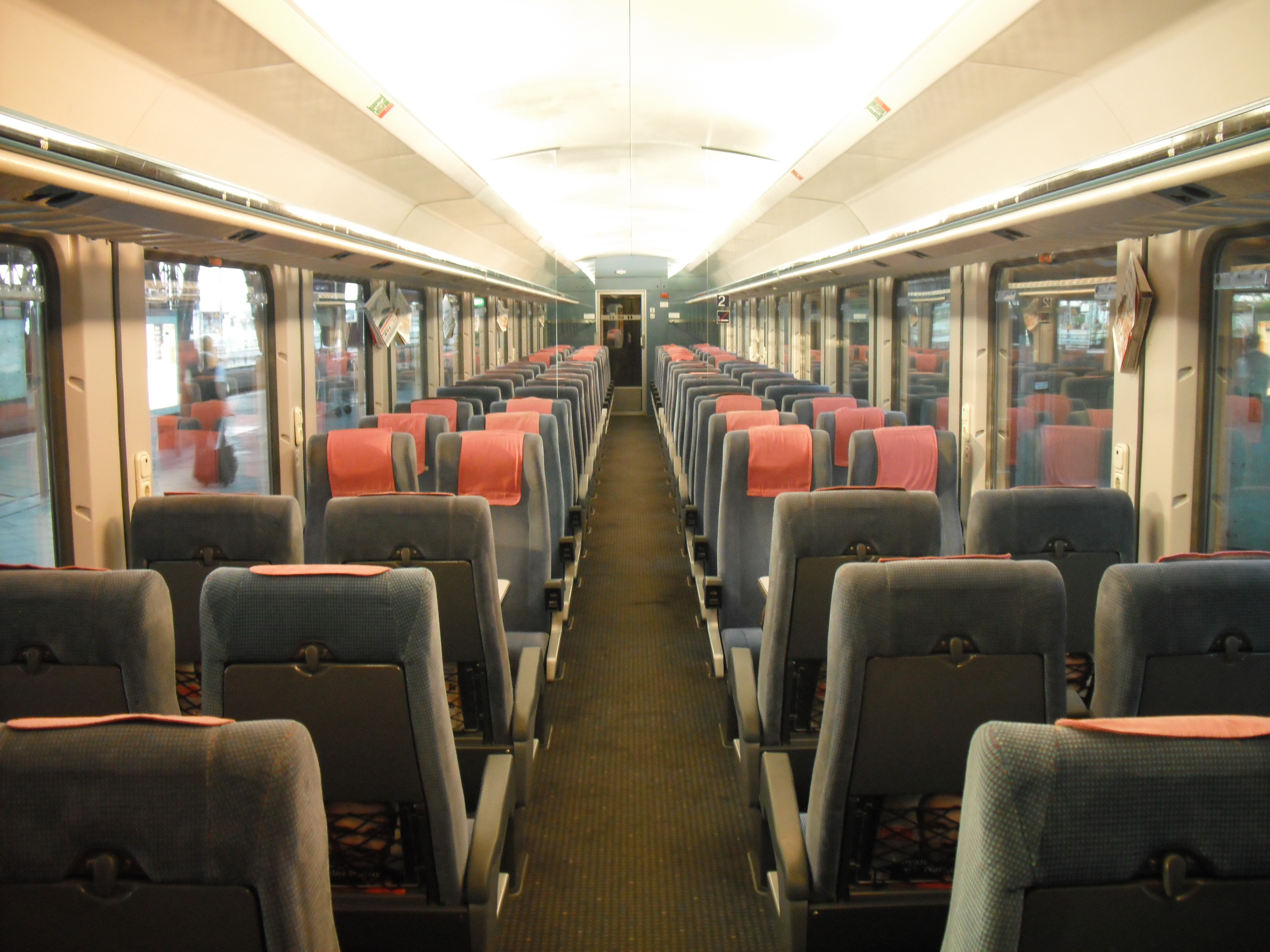 Inside a DB Intercity second class coach